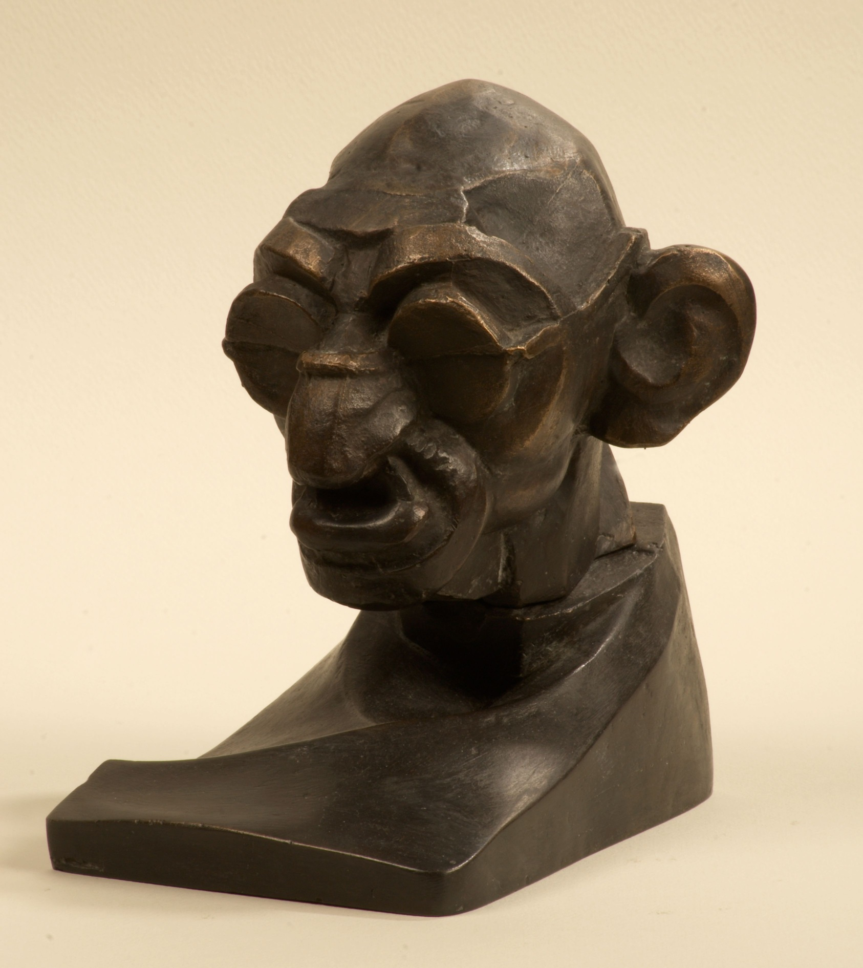 Caricature of Mohandas Karamchand Gandhi, designed in 1932 by Józef Gosławski (casting made in bronce in 2007).